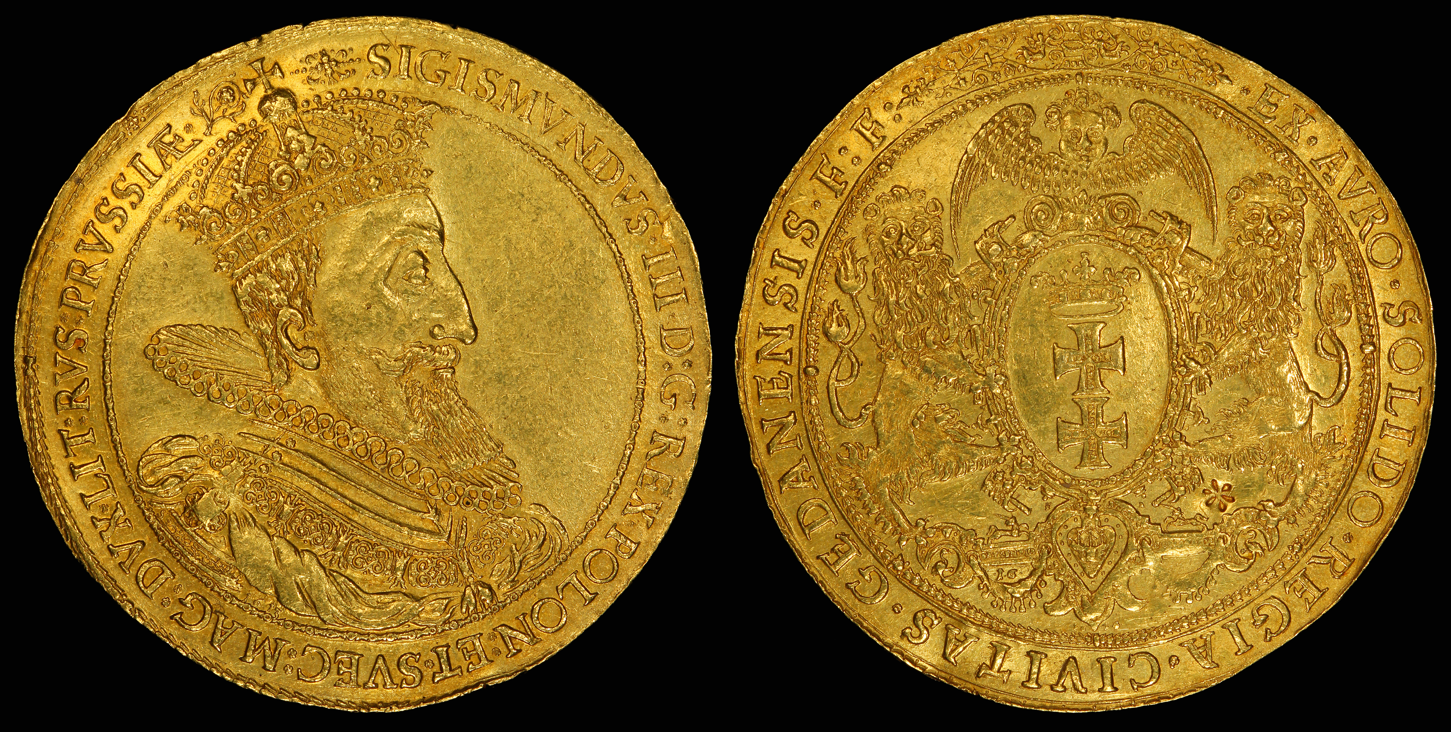 Polish–Lithuanian Commonwealth, 10 Ducat gold coin (1614) depicting Sigismund III Vasa as King of the Polish–Lithuanian Commonwealth.[1]